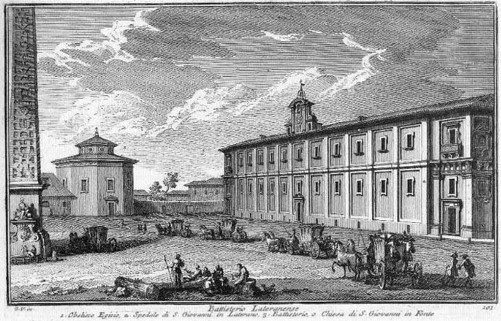 1) Obelisco Egizio; 2) Spedale di S. Giovanni; 3) Battisterio.